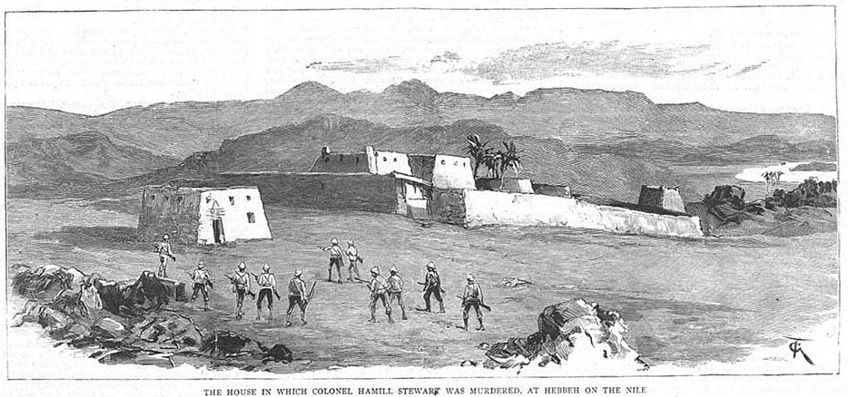 "The House in which Col. Hamill Stewart was murdered, at Hebbeh on the Nile".